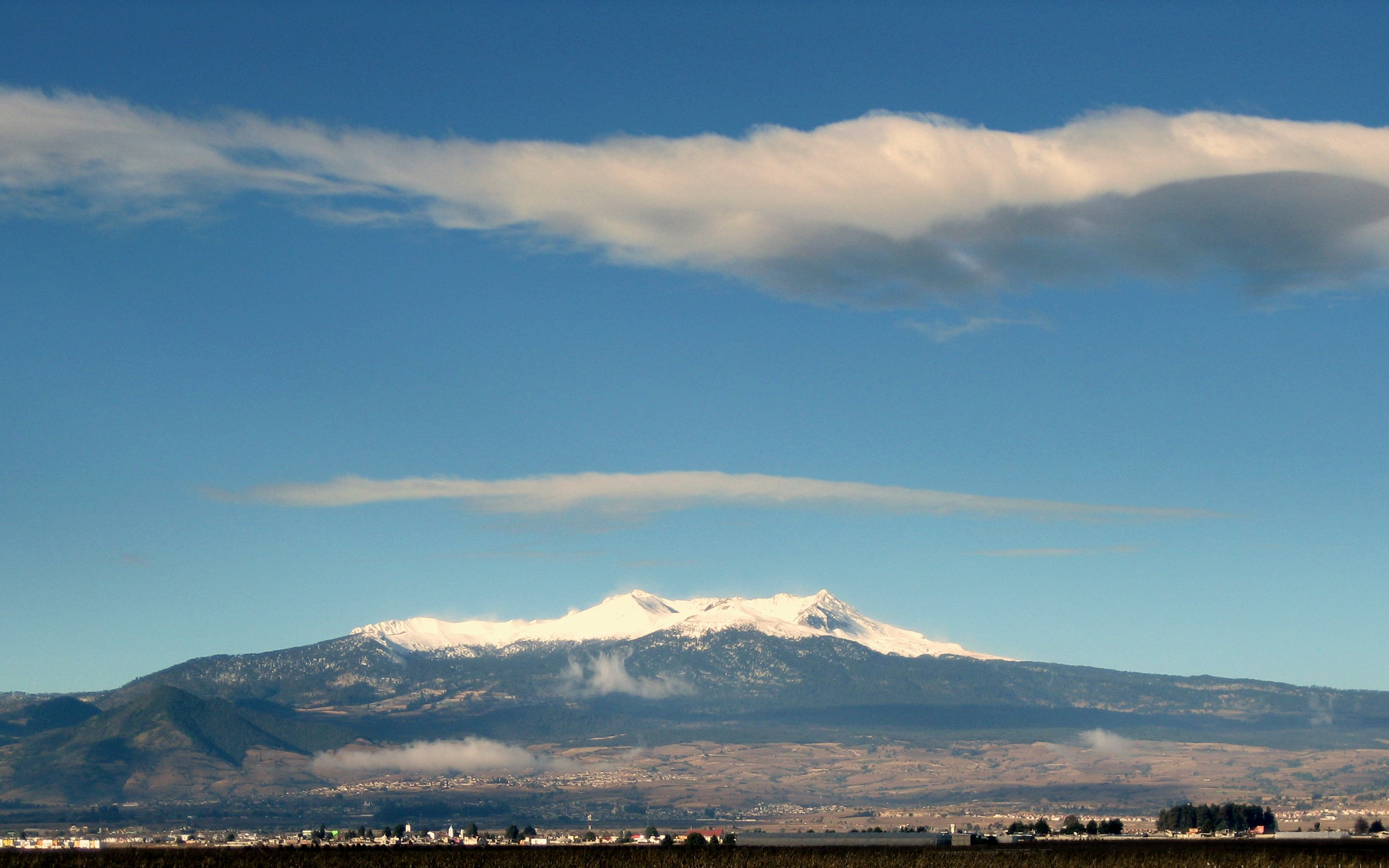 Nevado de Toluca, y Toluca de Lerdo — en Estado de México, México. De los Eje Neovolcánico.